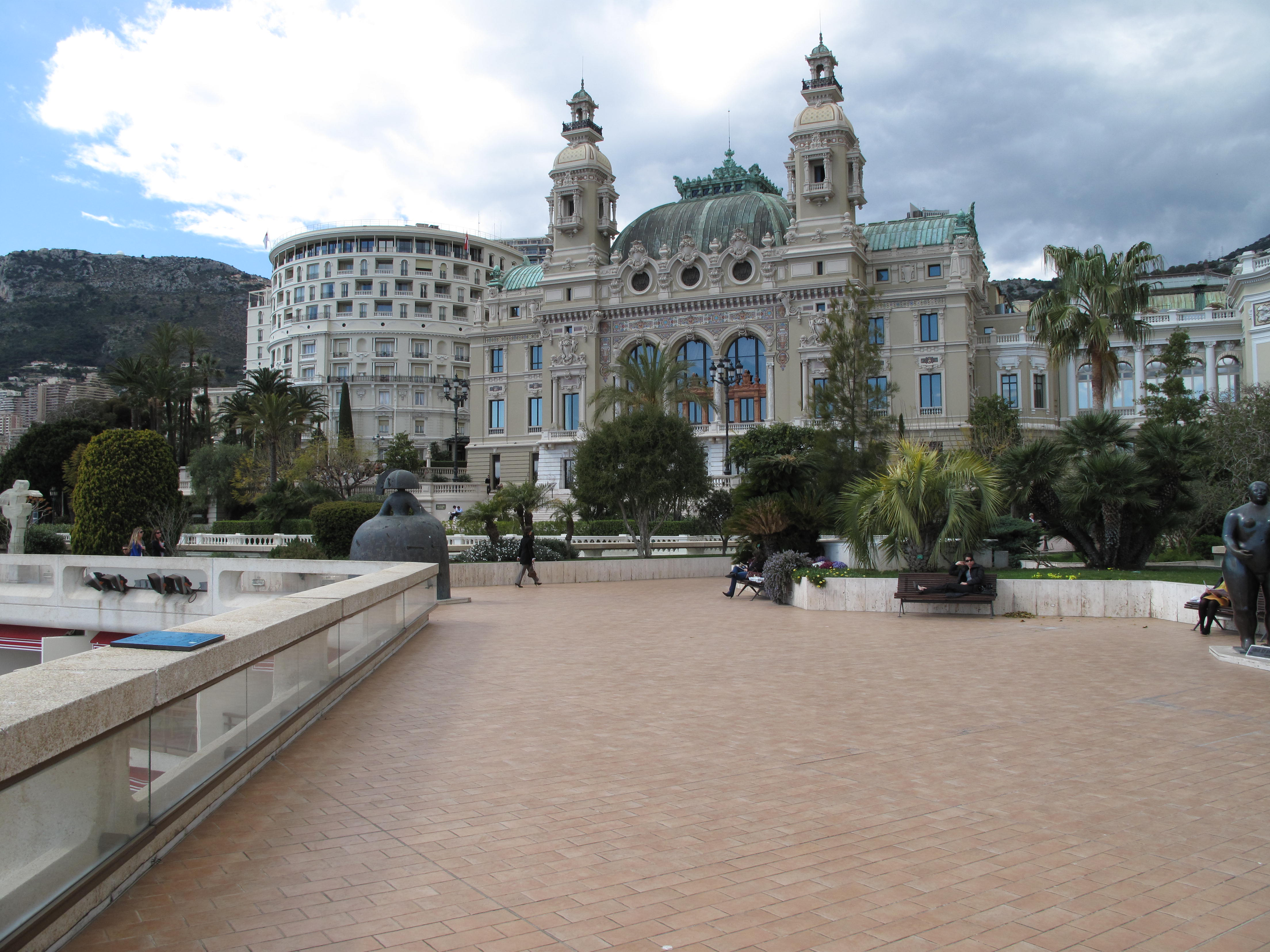 Seaside facade of the Monte Carlo Casino Theatre, designed by French architect Charles Garnier and built in 1878–79. Part of the neighboring Hôtel de Paris Monte Carlo is visible on the left, and part of the Casino on the right.